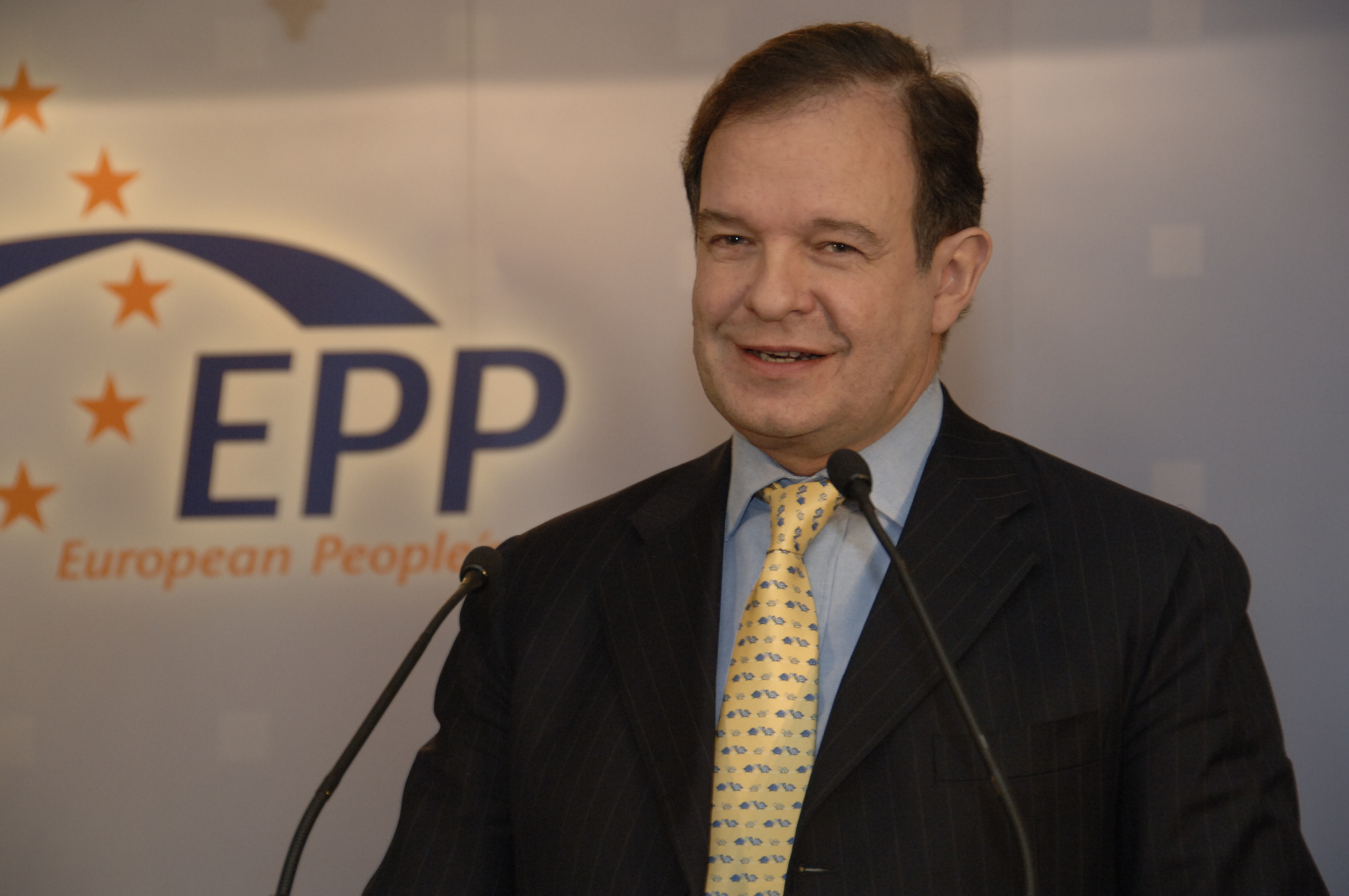 EPP CONVENTION ON CLIMATE CHANGE IN MADRID (6-7 FEBRUARY 2008)